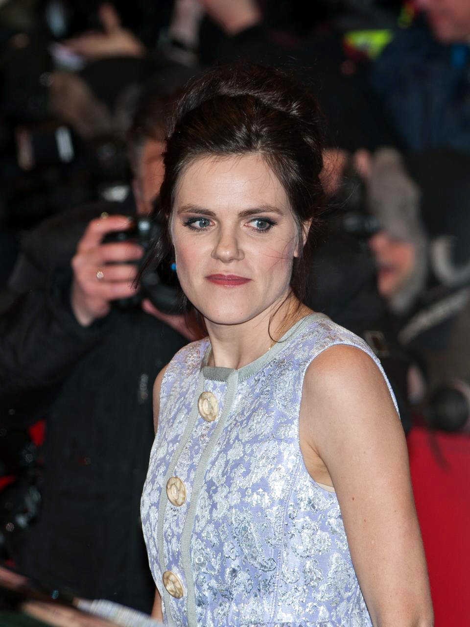 German actress Fritzi Haberlandt, Opening of the 62nd Berlin International Film Festival